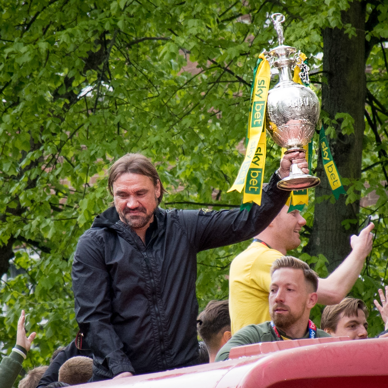 NCFC Celebrations